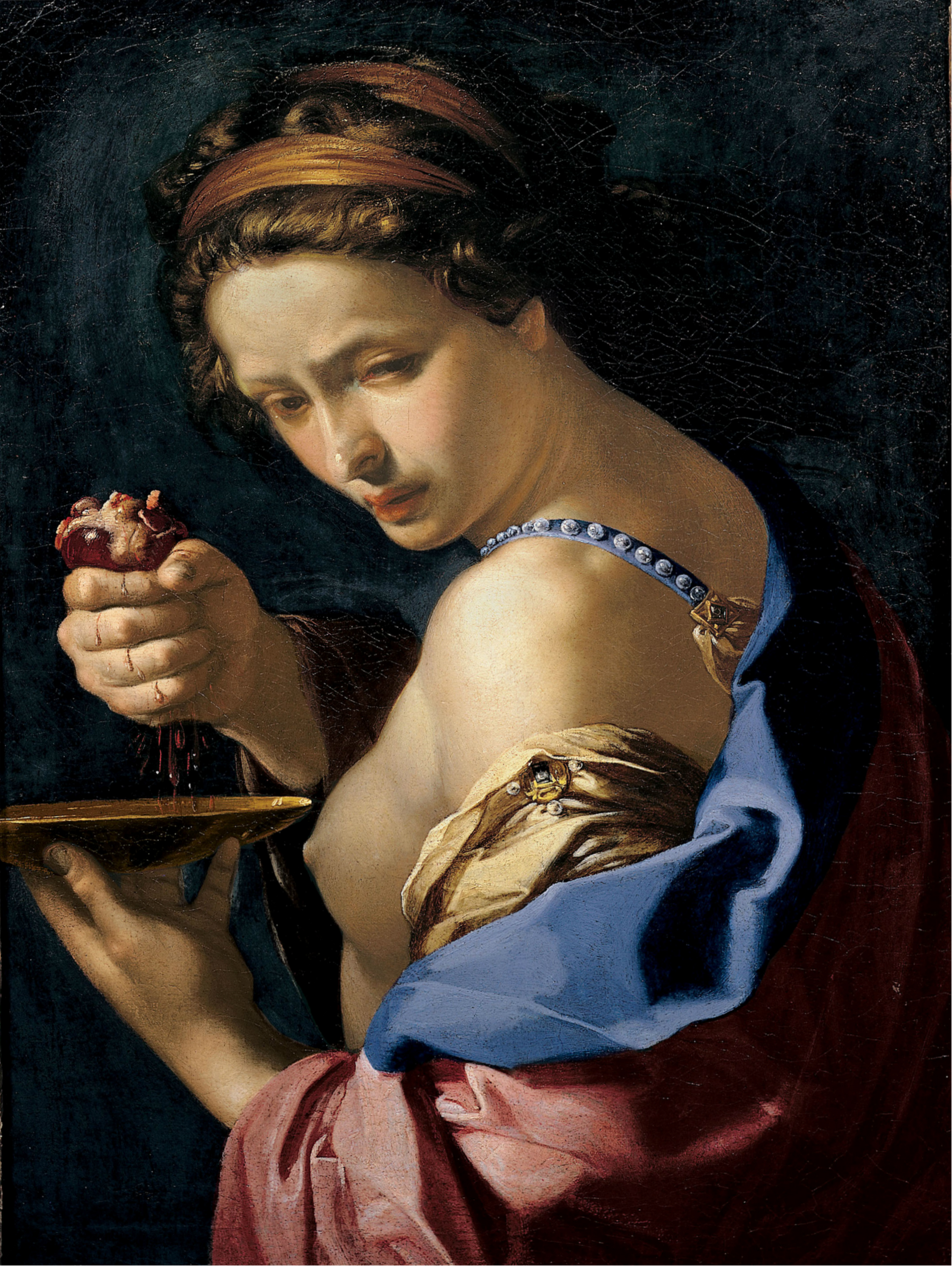 Ghismunda (Personaggio di una novella del Decameron di Giovanni Boccaccio)